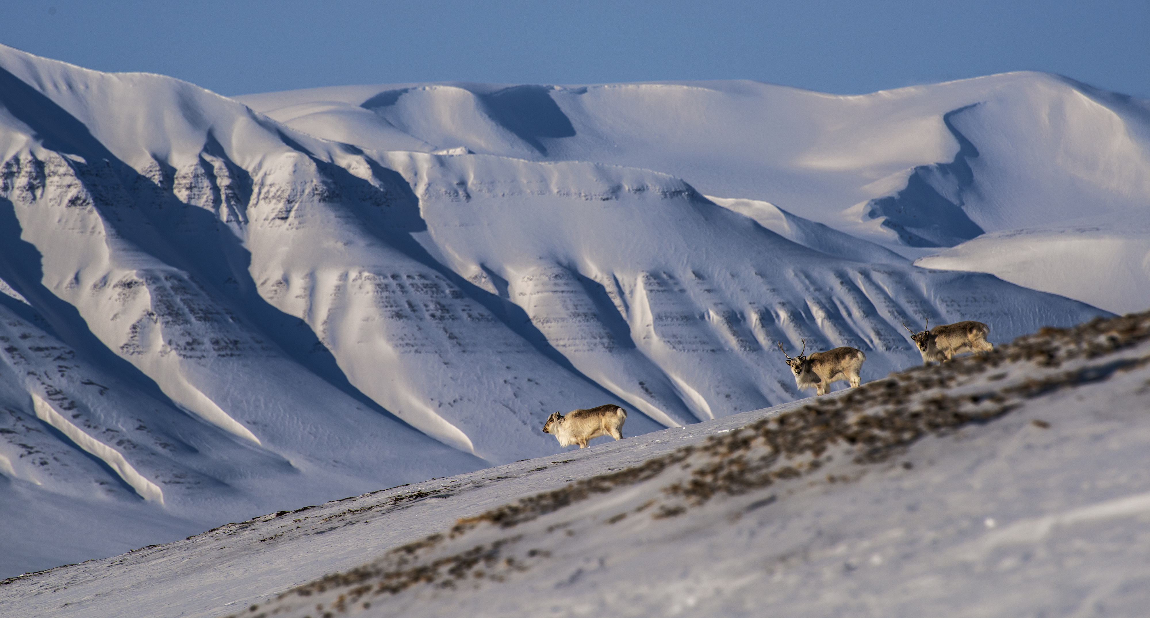 Villrein i Sassendalen, Svalbard